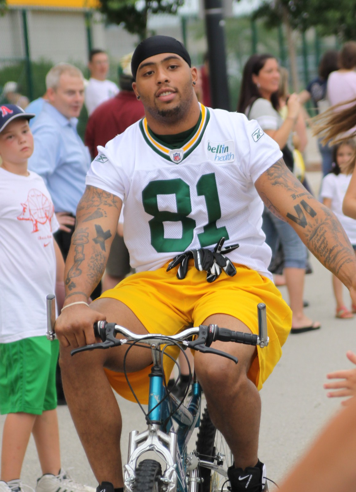 Green Bay Packer Tight End Andrew Quarless, riding a fan's bicycle at pre-season training camp, August 1, 2011, Green Bay, WI